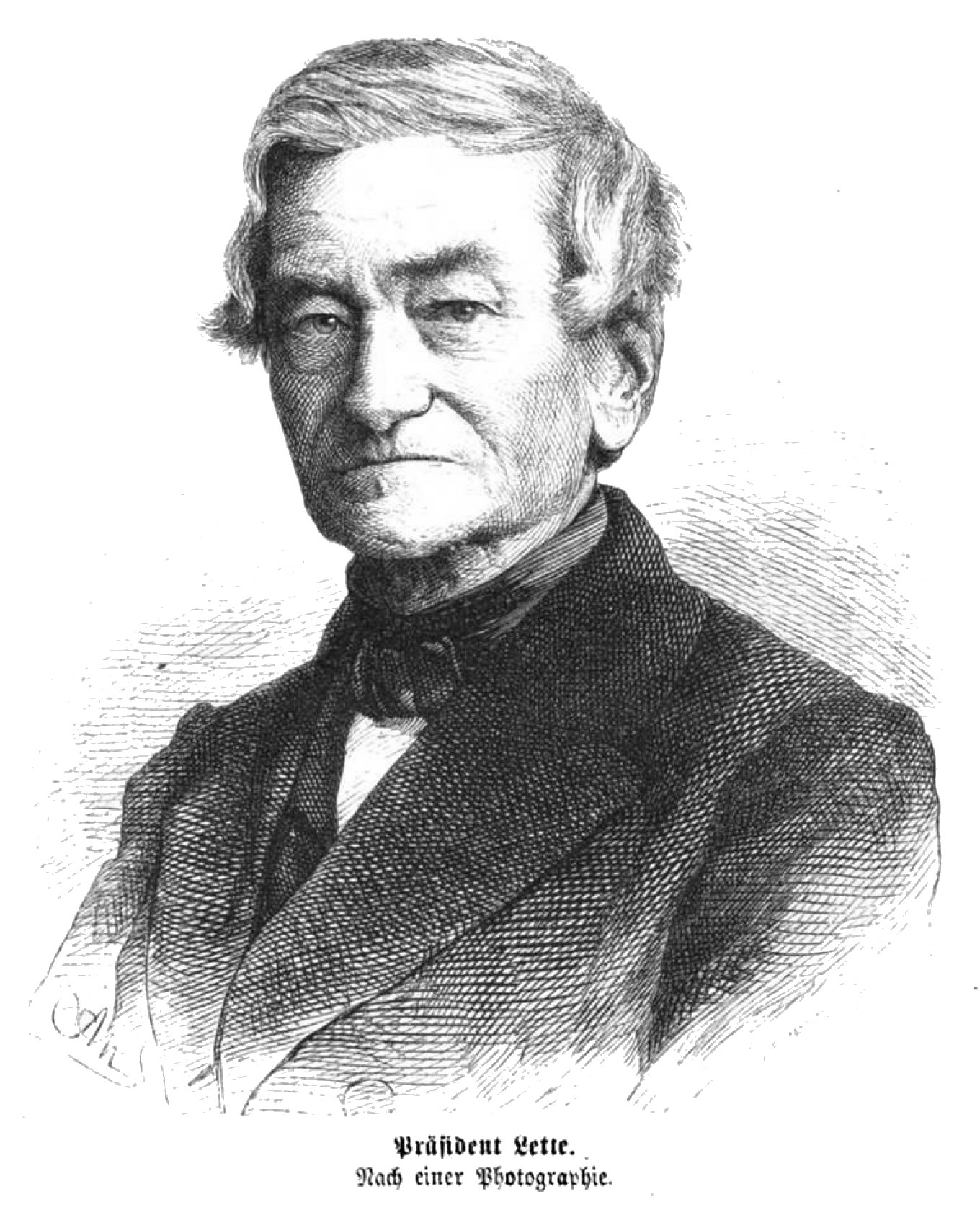 caption: "Präsident Lette.Nach einer Photographie."